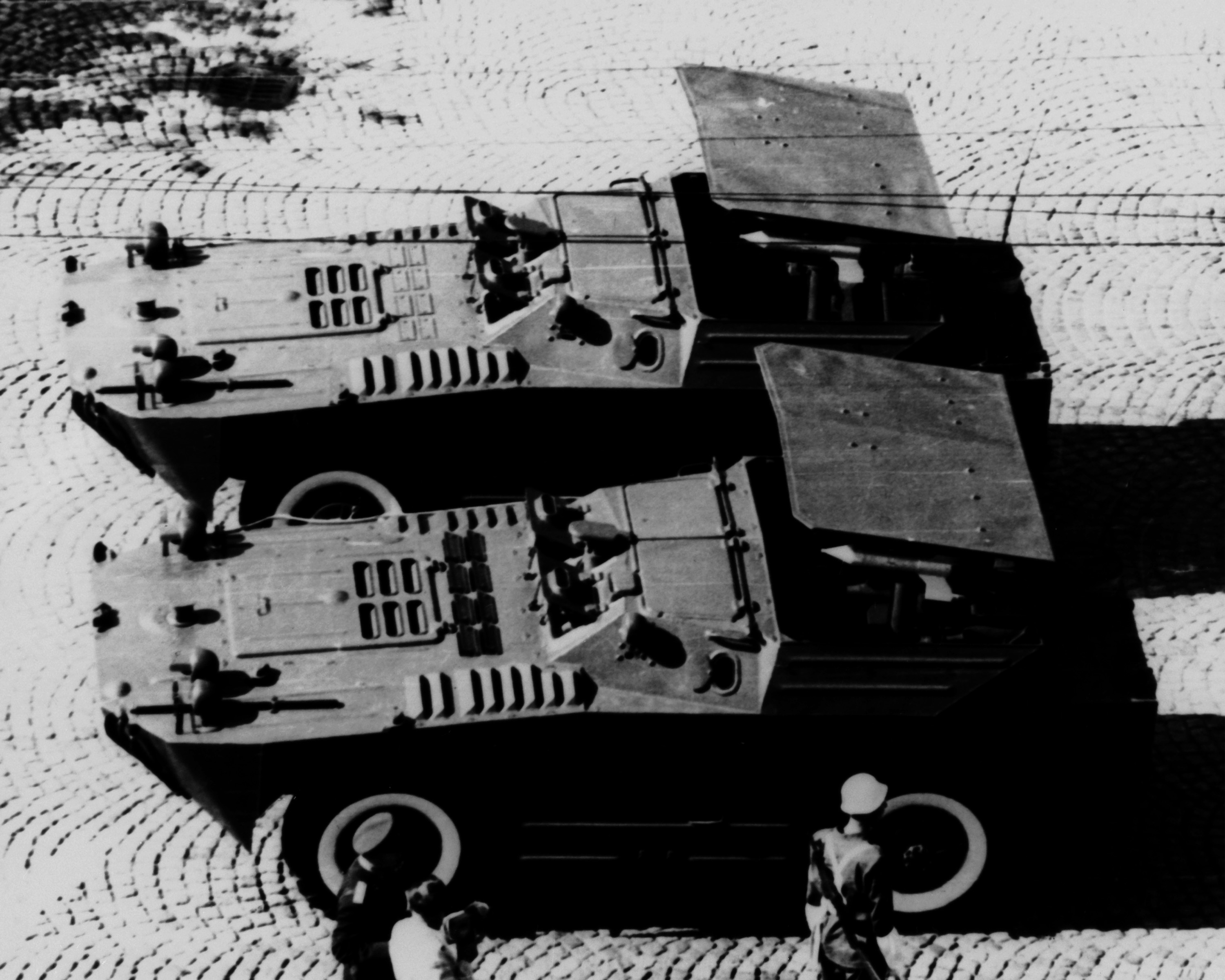 An overhead view of a Soviet AT-3 Sagger anti-tank missiles mounted on two BDRM-1 amphibious reconnaissance cars.